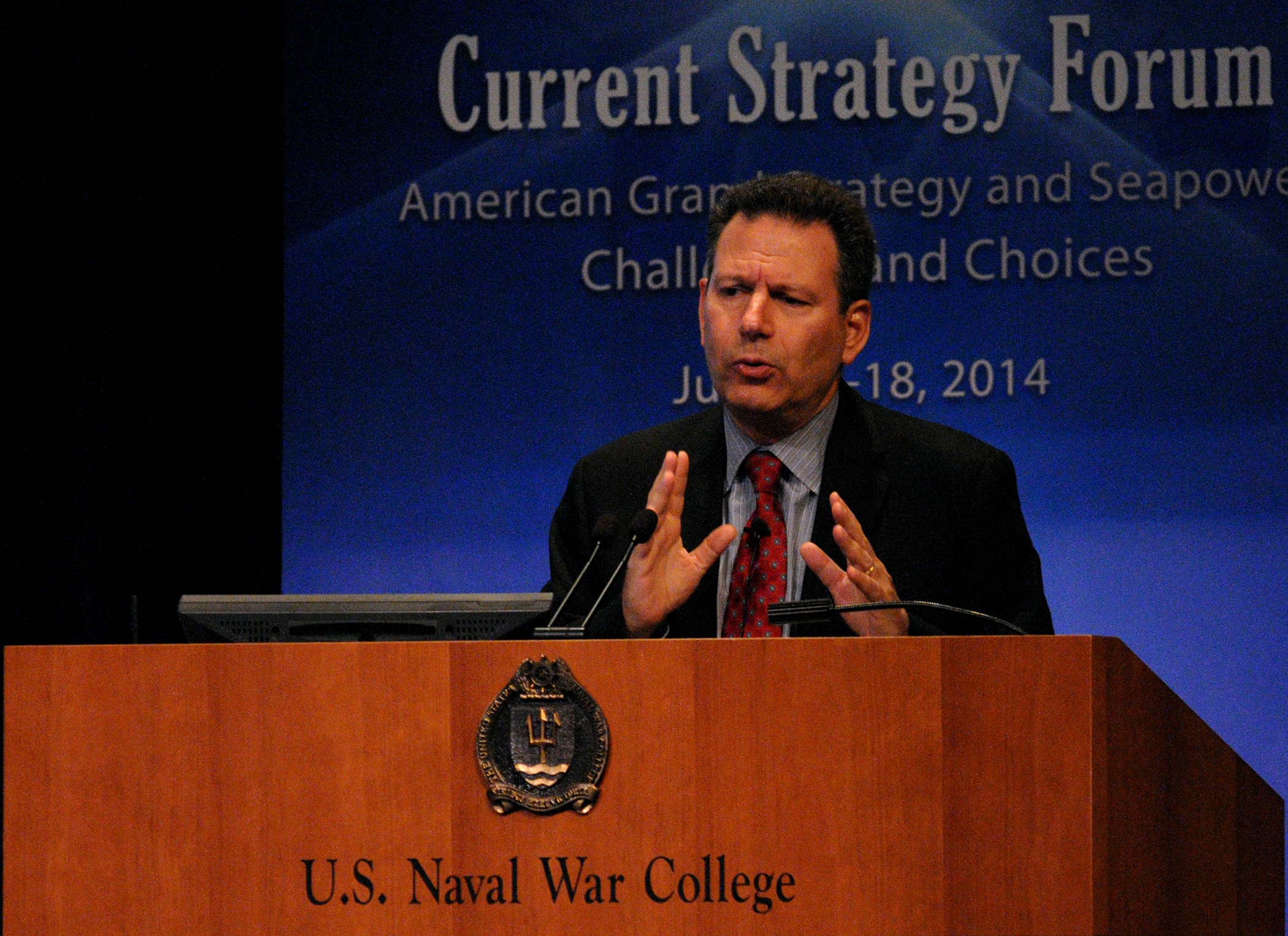 Robert D. Kaplan speaking at the U.S. Naval War College in 2014